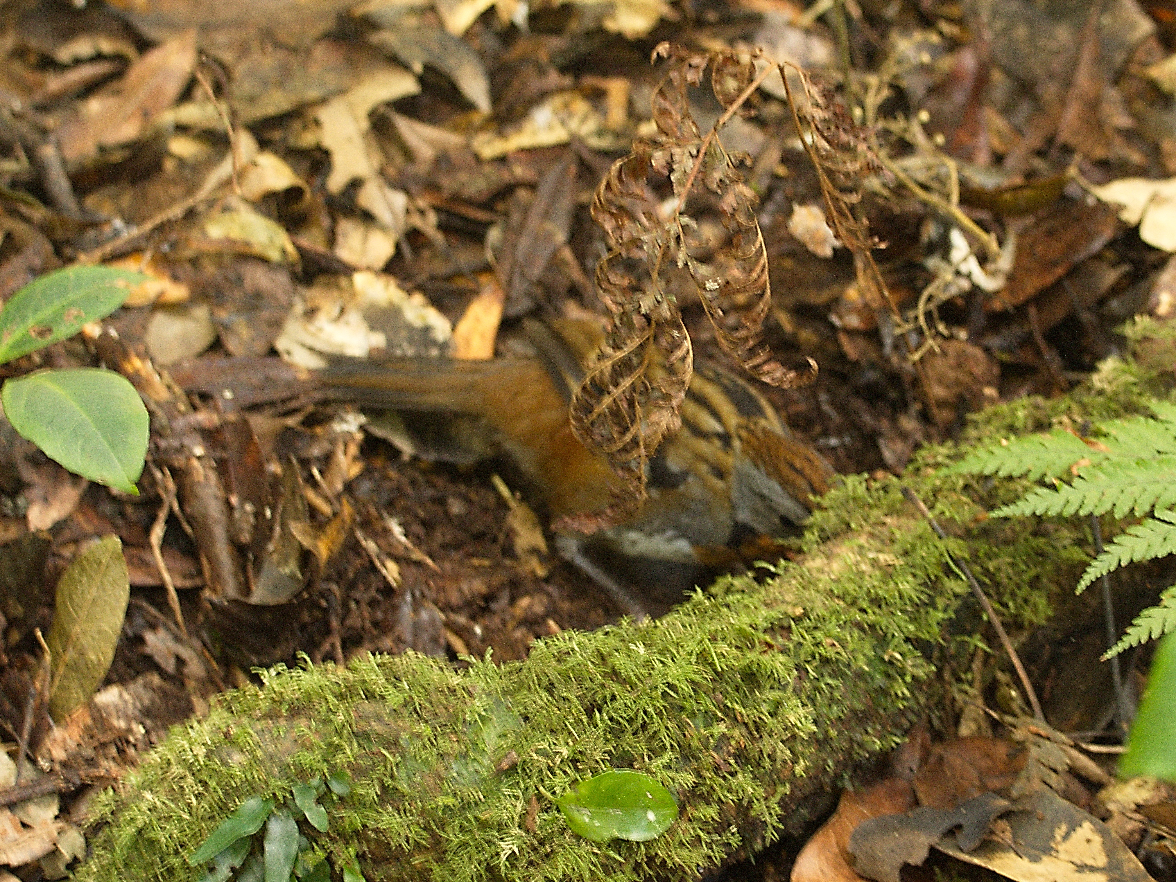 Orthonyx temminckii Ranzani, 1822, Australian Logrunner, female, Lamington National Park, Queensland Australia, 23 May 2017